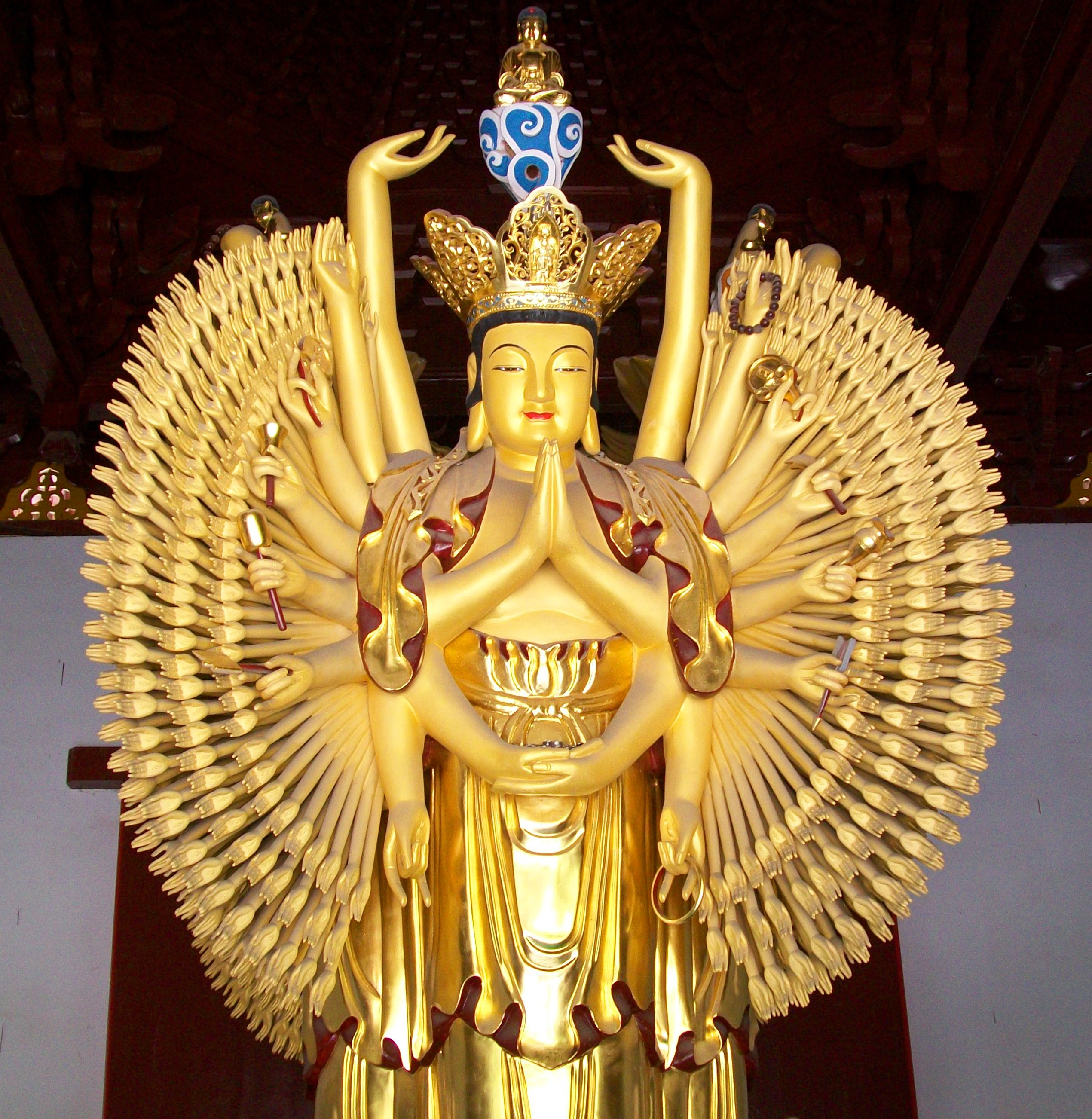 Thousand armed Avalokitasvara Bodhisattva, from Dharma Flower Temple in Huzhou, Zhejiang province, China.